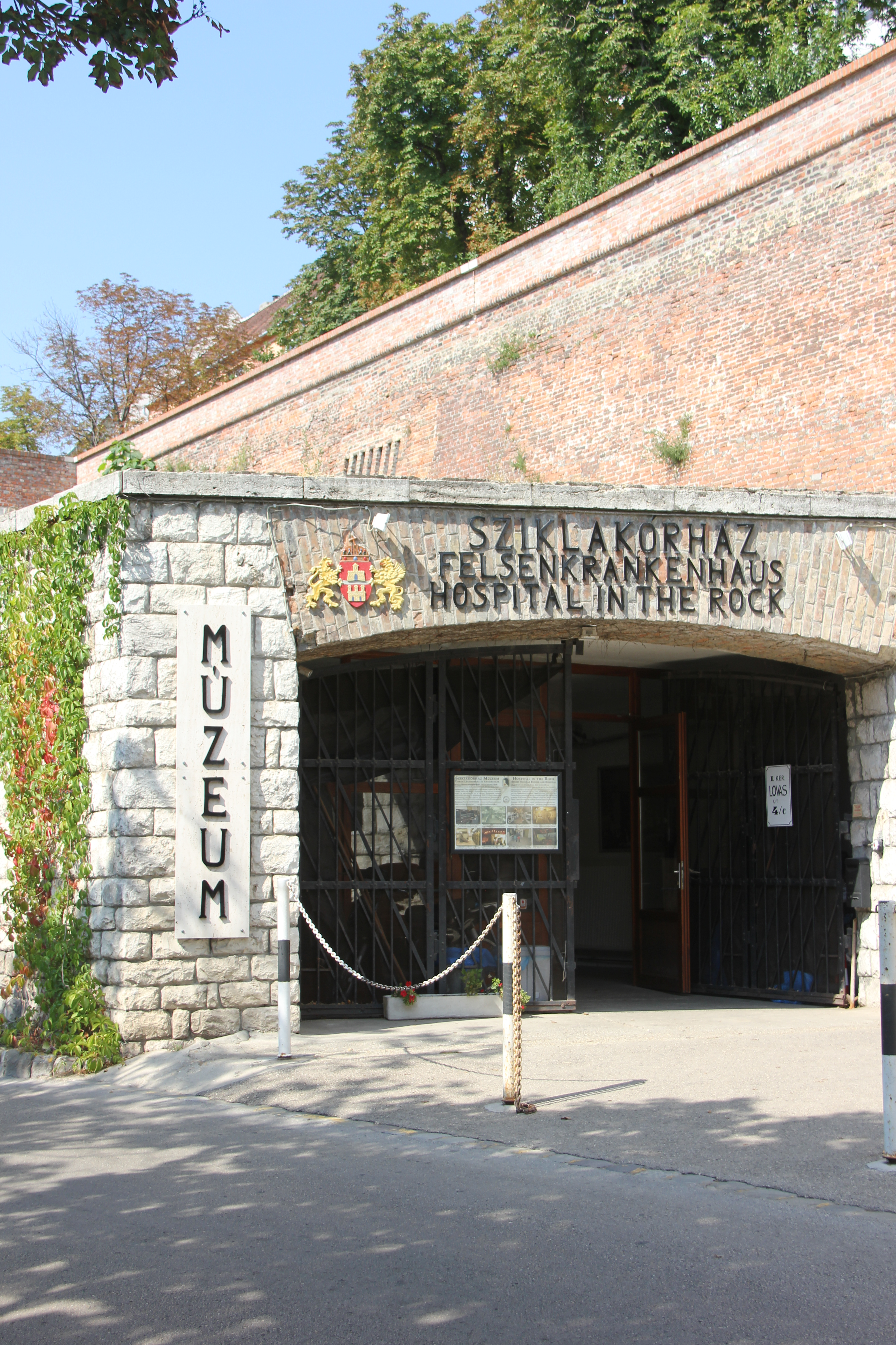 Very interesting museum, they give tours on the hour but you're not allowed to take photos inside. This is near the Fisherman's Bastion are but you have to go down a covered staircase to find it. It's a former hospital built into the natural caves under Buda. This is also one of the newer museums in the city and they've done it up with all kinds of wax figures. They even have an old Morpheus anesthesia machine that was used in the filming of Evita. The hospital was used in the Siege of Budapest and the Hungarian Uprising. It was eventually upgraded into a nuclear bunker. In the event of a nuclear attack staff from a nearby hospital were supposed to take shelter here and reemerge later to treat survivors. They had secret drills throughout the Cold War but eventually the site was abandoned and a family moved in and kept the place up. They also have a strange little gift shop; I bought a vintage syringe from the GDR!